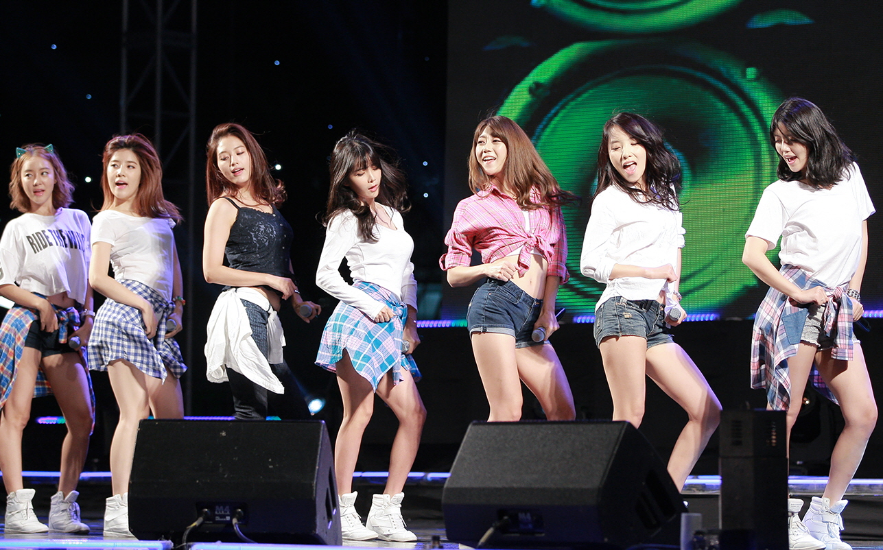 Rainbow (South Korean band) in 2013